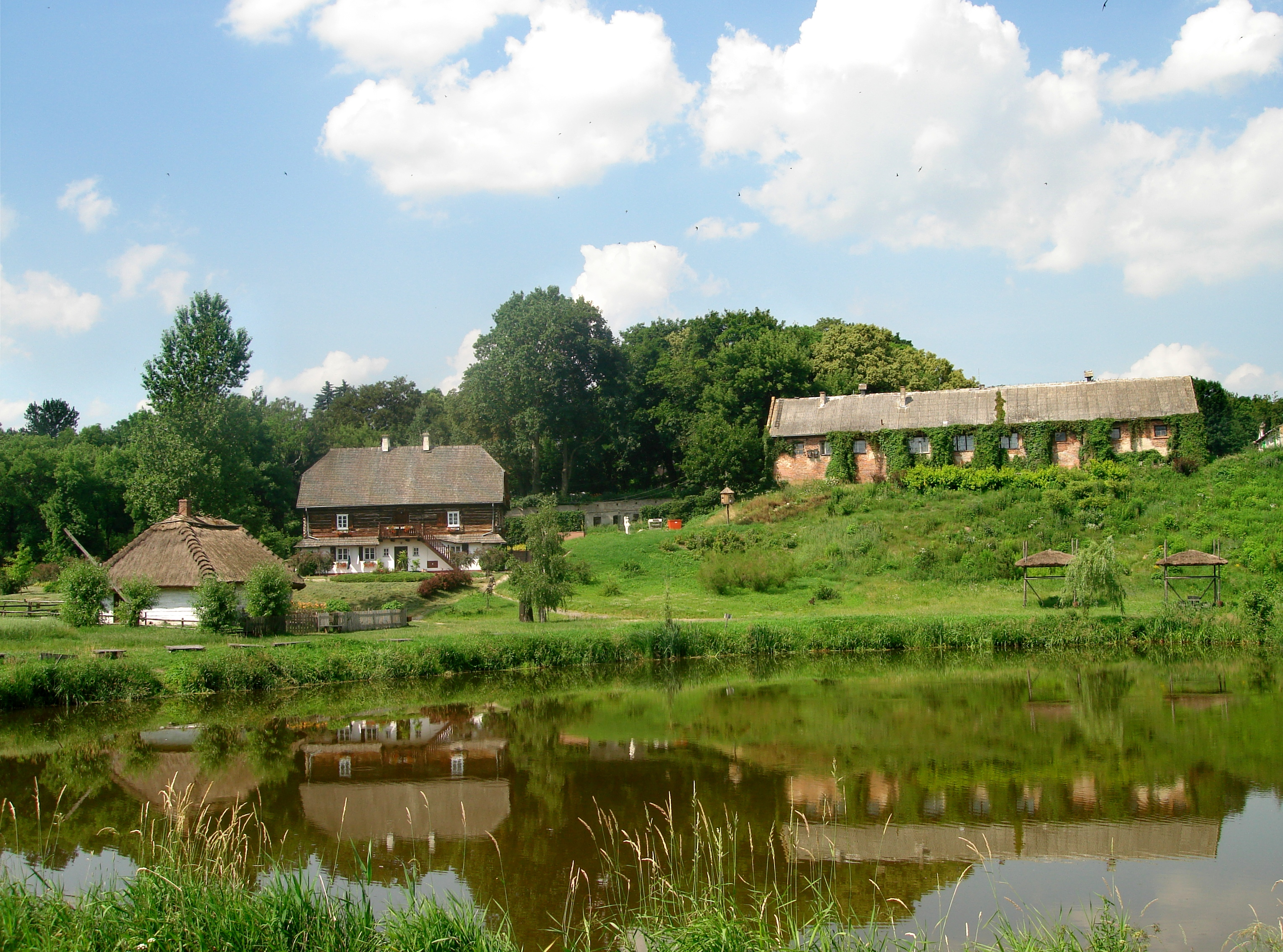 Open Air Village Museum in Lublin